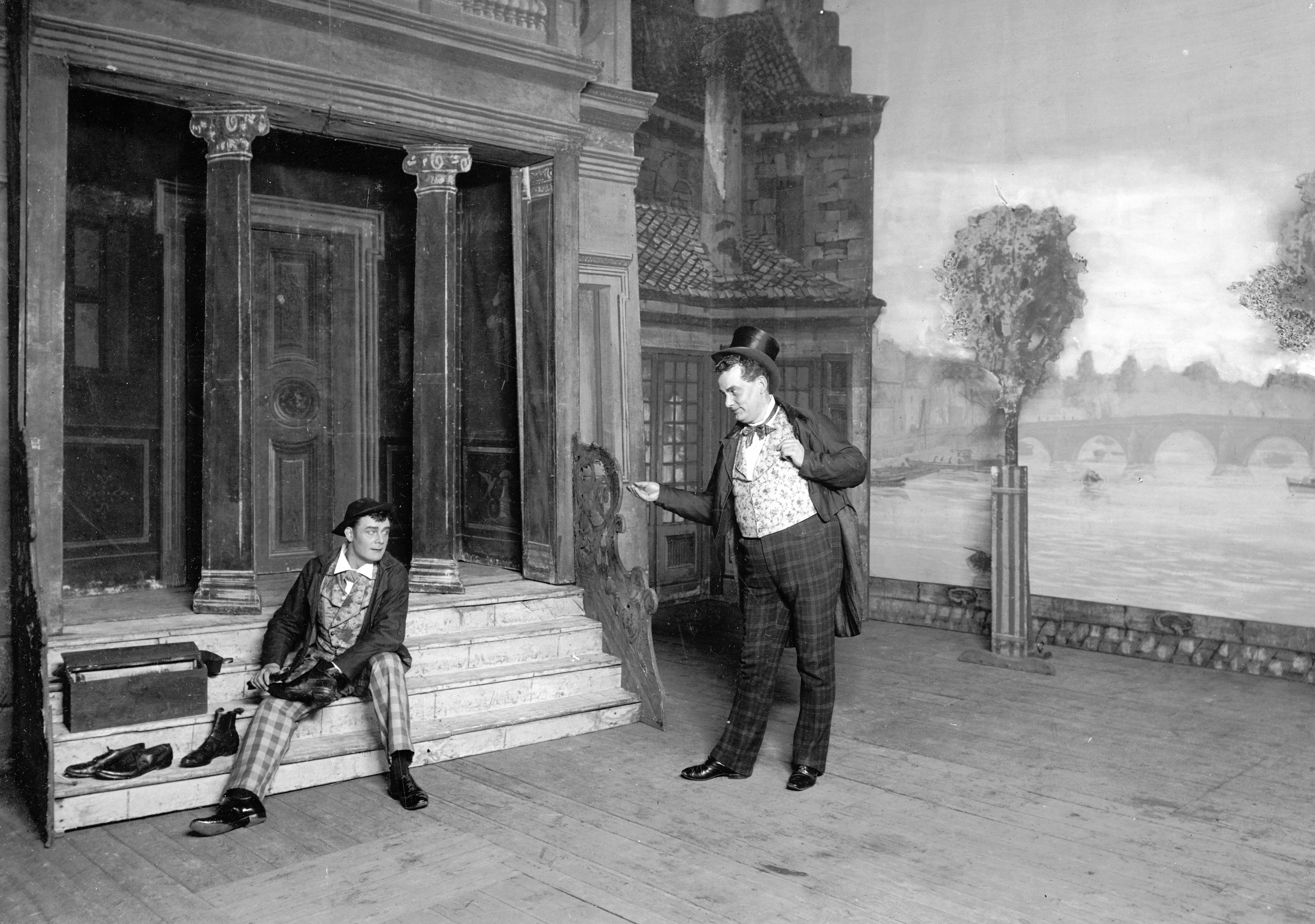 Erland Wagner and Justus Hagman in Charles Varin's Le Docteur Chiendent, ou l’Héritage de Rocambole at Södra Teatern in Stockholm 1899